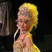 Kelly Chen